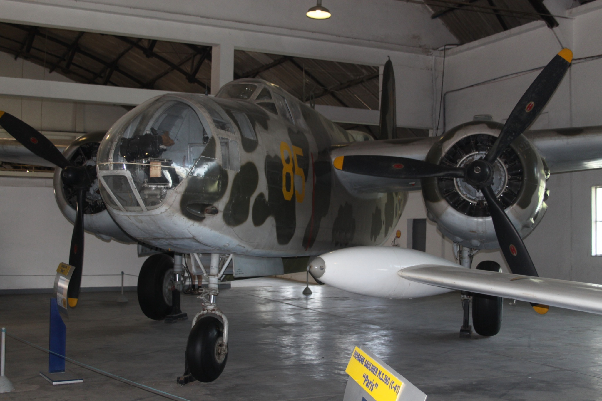 At Campo Dos Afonsos